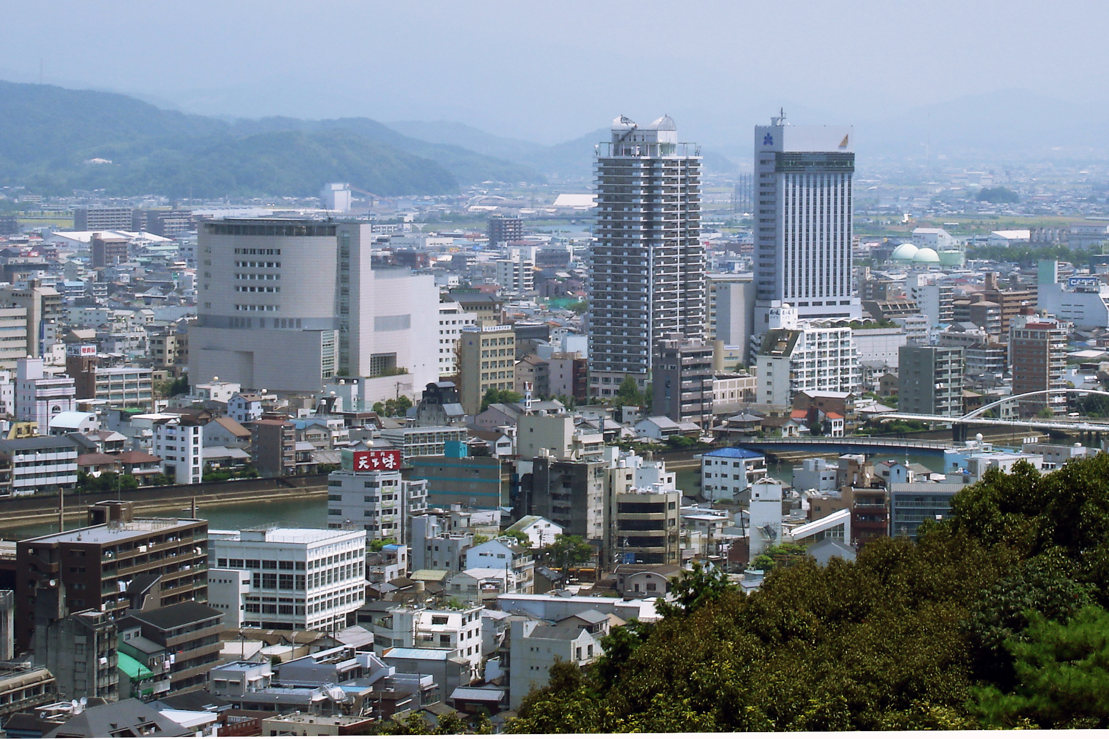 Downtown Kochi, Japan as seen from nearby mountain